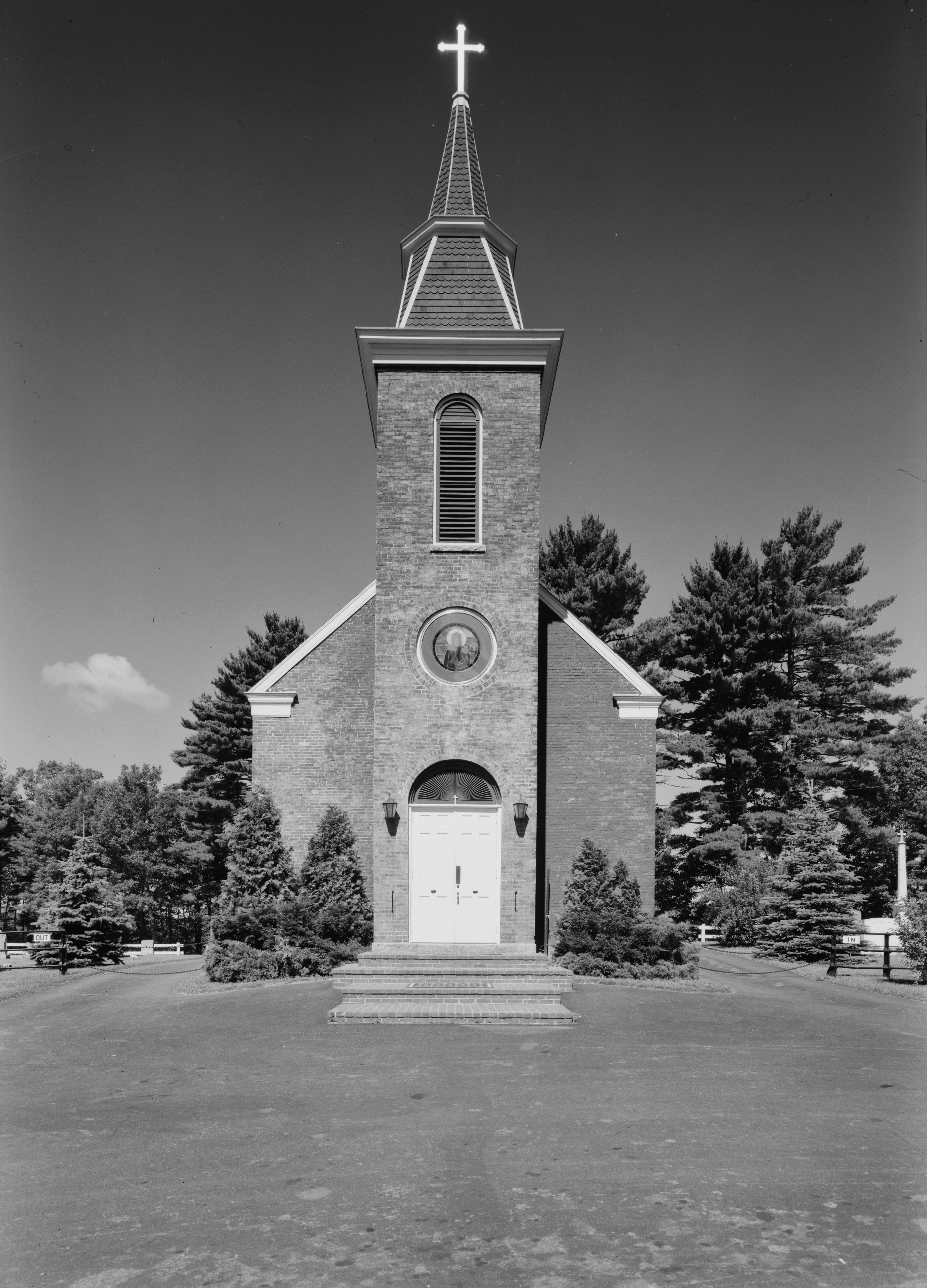 Front of St. Patrick's Catholic Church, located off Academy Hill Road in Newcastle, Maine, United States. Built in 1807, it is listed on the National Register of Historic Places.